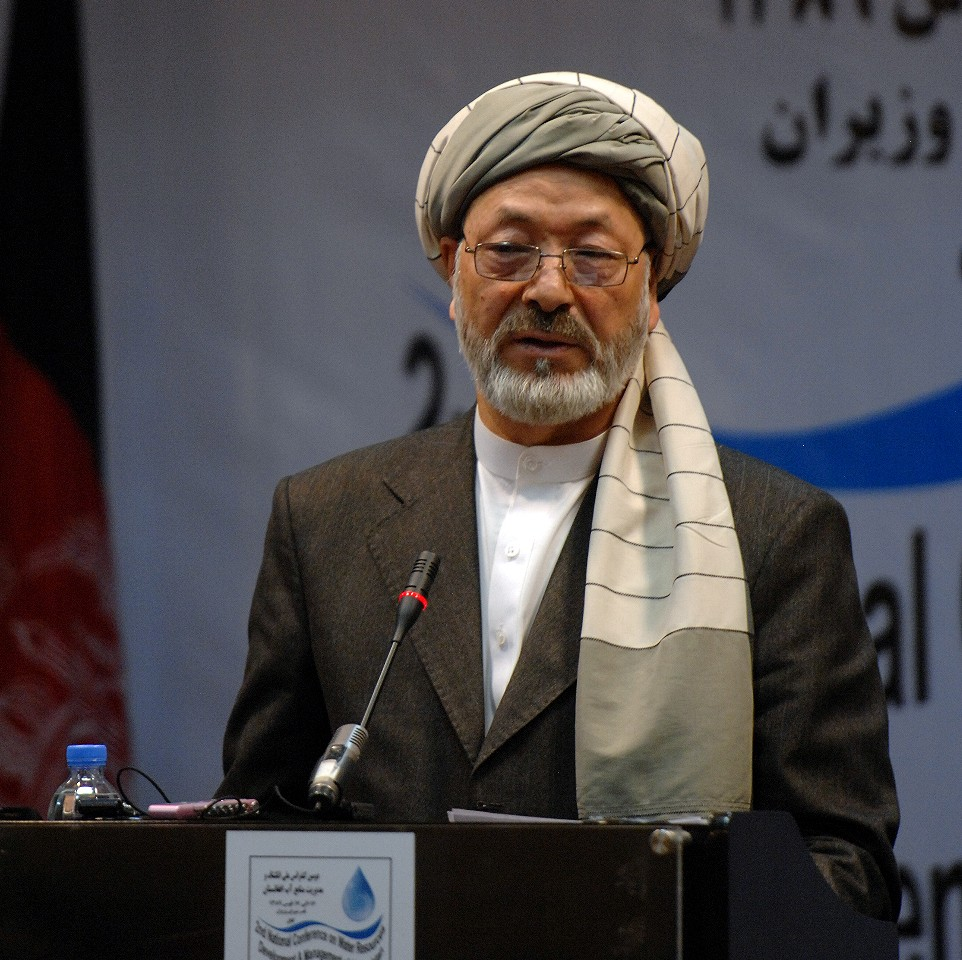 Karimi Khalili at the second annual National Conference on Water Resources, Development and Management of Afghanistan.